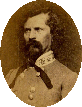 Brigadier General Earl Van Dorn, C.S.A. Graduated from West Point, 1842; Mexican War veteran. Resigned his U.S. Army commission in January 1861 and was commissioned as colonel in the Confederate Cavalry in March 1861. Promoted to brigadier general in June 1861 and major general in September 1861. Major campaigns and battles include Pea Ridge, Corinth, Holly Springs, and Thompson's Station. Van Dorn was killed by a jealous husband in Spring Hill, Tennessee, in May 1863; he is buried in Port Gibson, Mississippi.